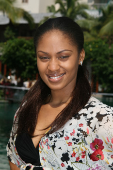 Miss Nigeria 2007 - Munachi Gail Teresa Abii in Miss World 07, Sanya, China